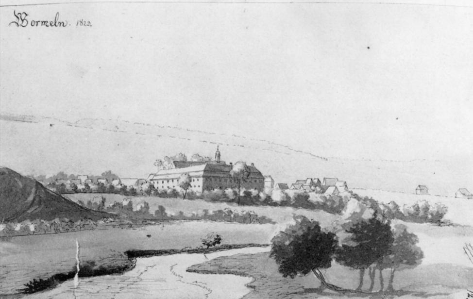 Wormeln nunnery as seen from the north-east side. Following caption is given: Ansicht des Klosters; NordOst, 1823 Feder in Tusche, laviert; F. J. Brand (Westfalia Picta) Westfalia Picta is a project which aims to collect and publish views of Westphalian villages that were created before 1900.